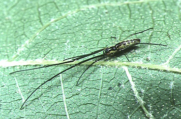 female Tetragnatha lauta from Okinawa.